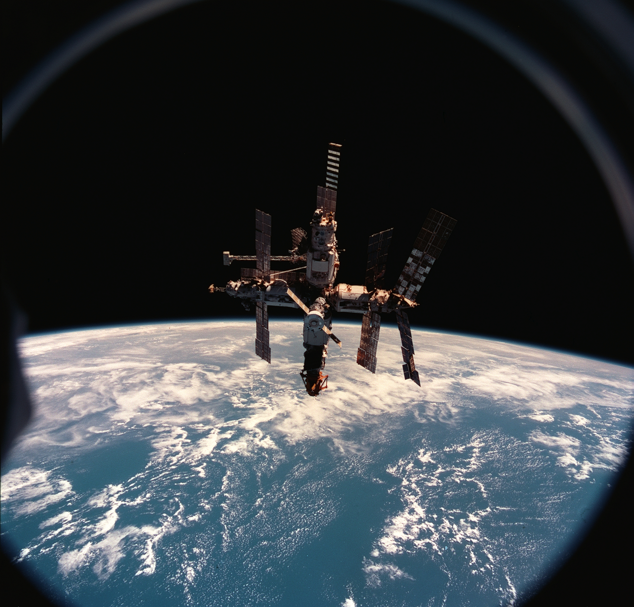 As photographed through a hatch window on the Space Shuttle Discovery, Russia's Mir space station is backdropped against Earth's horizon. The photo was made during the final fly-around of the members of the fleet of NASA shuttles.